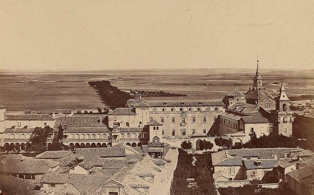 An old photo showing a complete view of Archbishop's Palace of Alcalá de Henares, 1870.